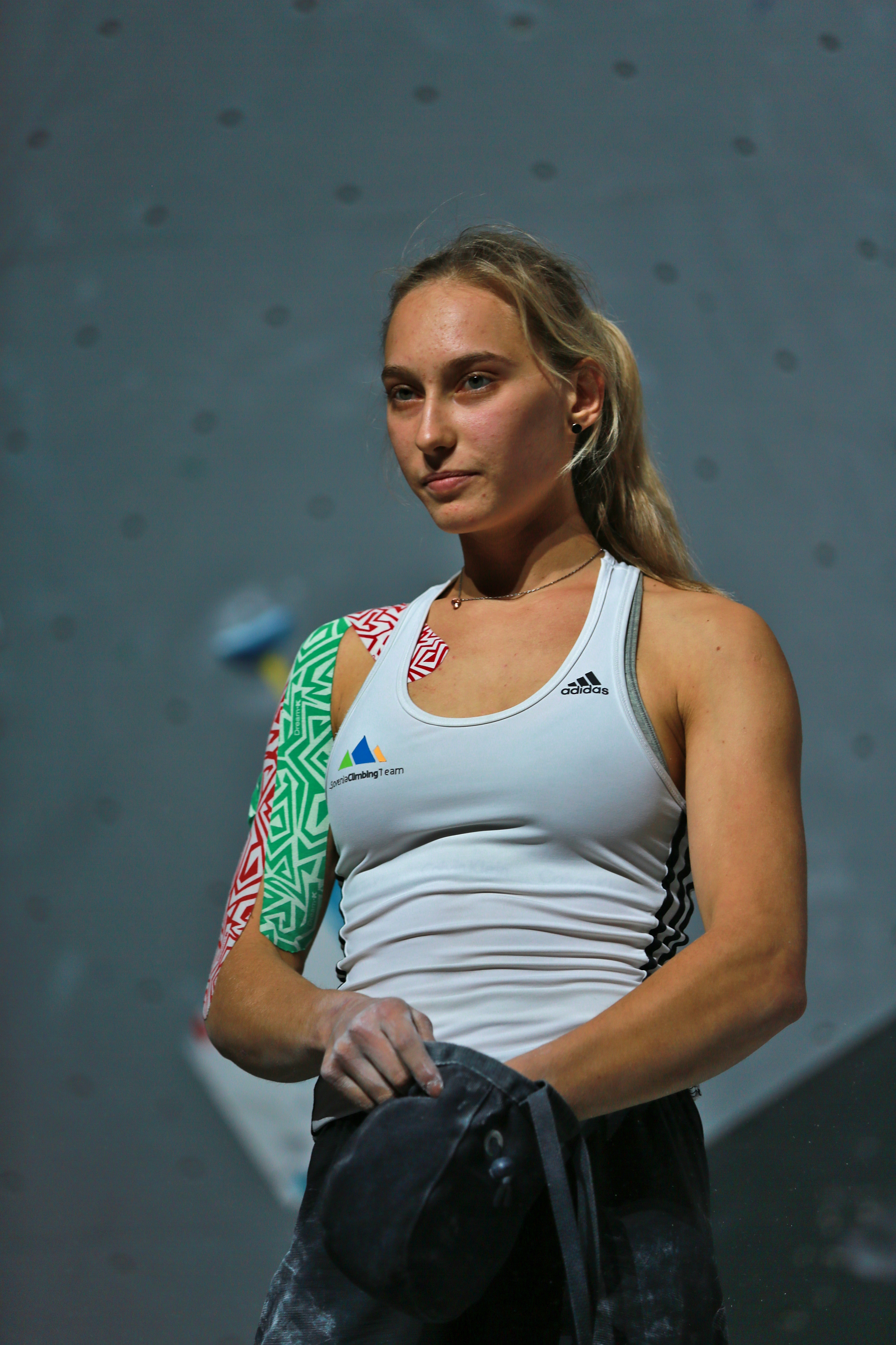 Climbing World Championships 2018 Boulder Final Garnbret